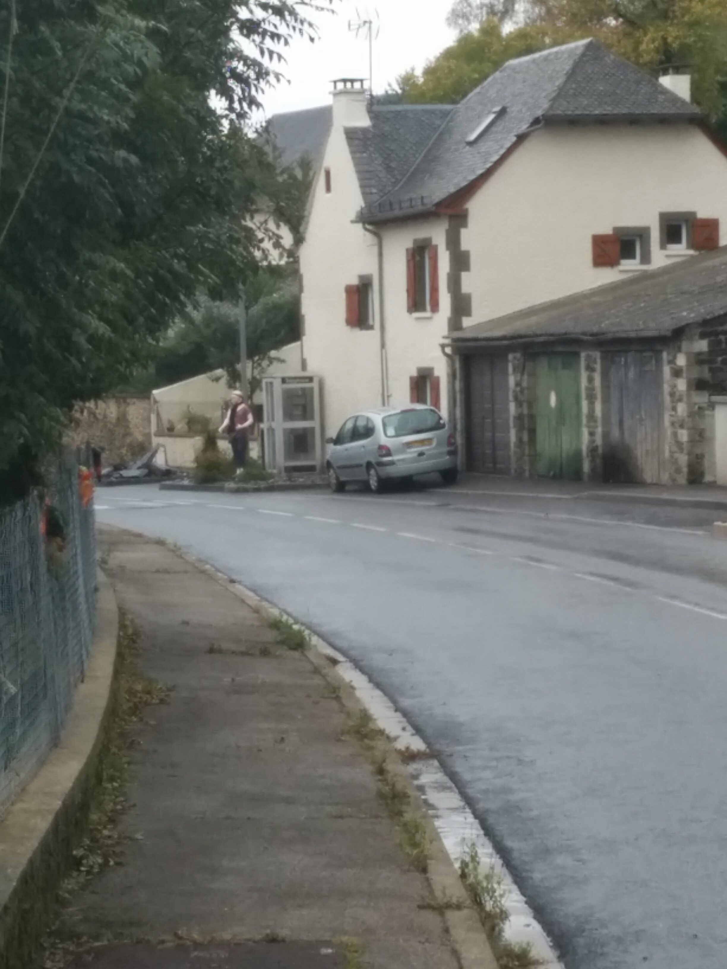 Le Cayrol in France Scarecrow trail October 2015